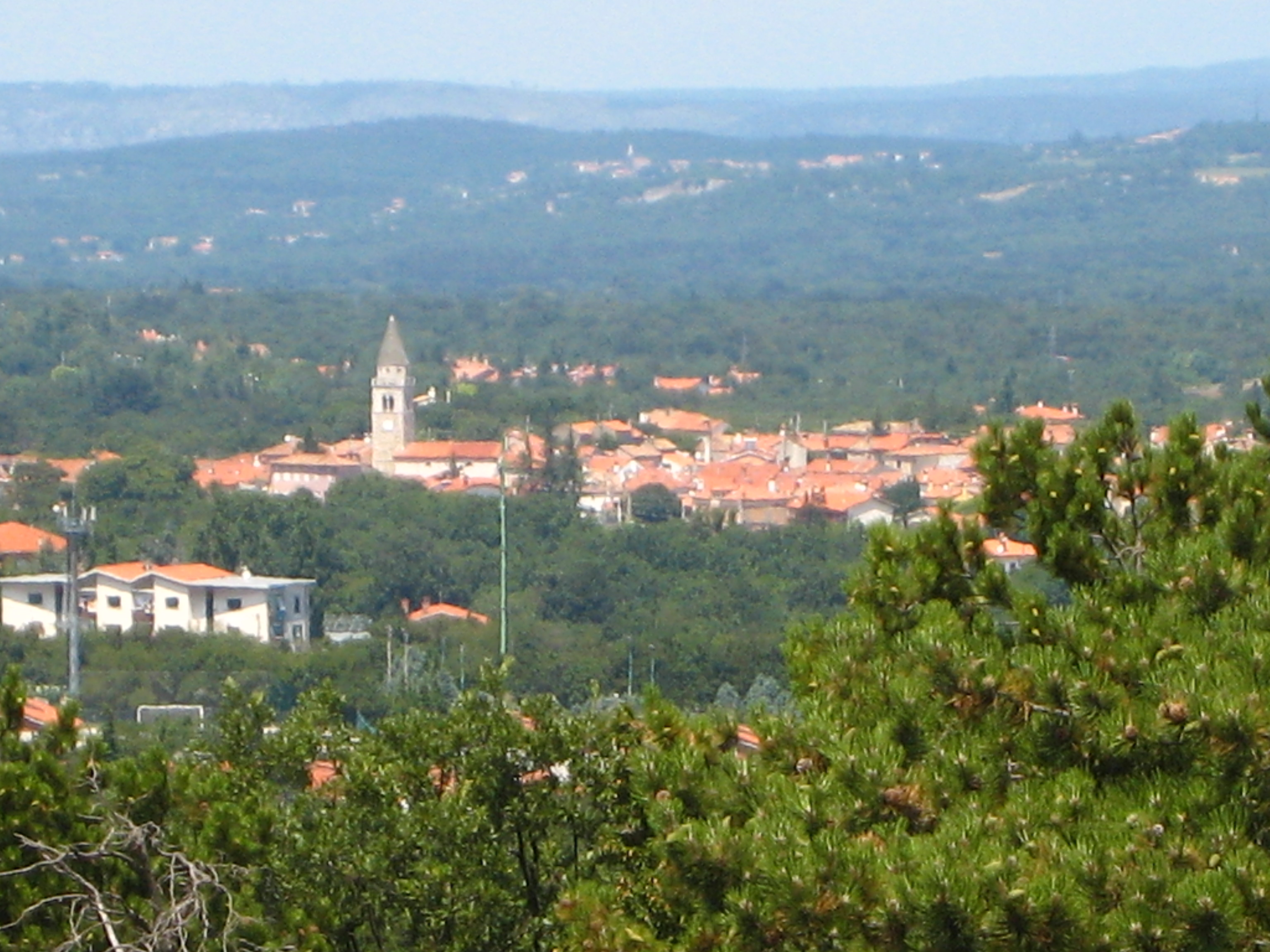 Photo of Prosecco, a village near, now suburb of Trieste